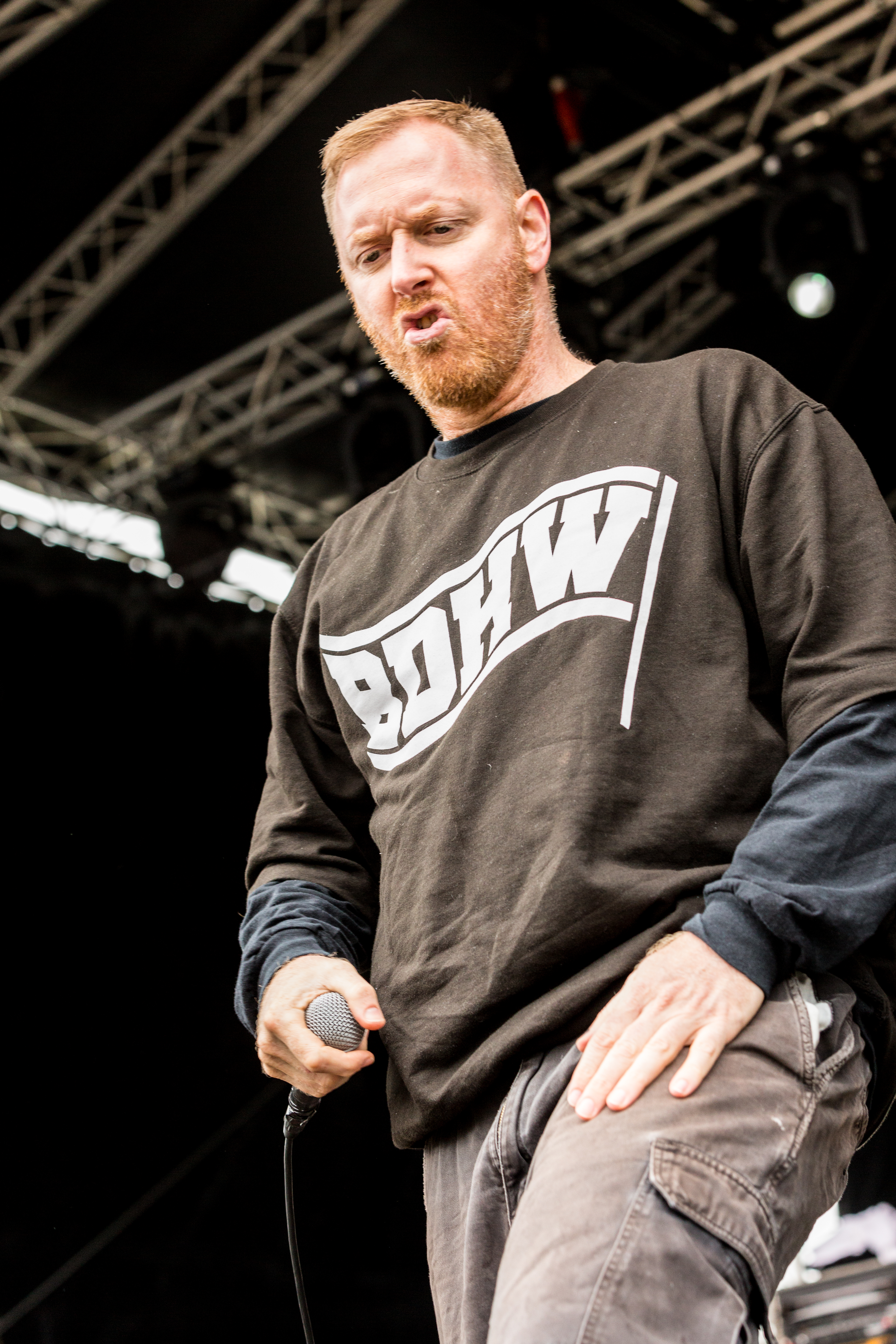 The Dutch hardcore band Born from Pain at the Metal Frenzy 2017 in Gardelegen/Germany.